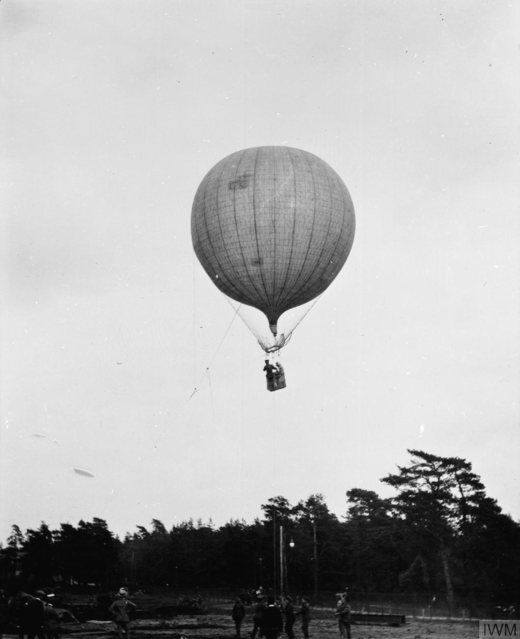 Aircraft and Balloons Used by Some of the Air Pioneers Who Were Contemporary With Samuel Franklin Cody. Members of the balloon factory aero club watching the use of a tethered observation balloon.